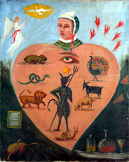 A "taolènnou" or Breton "mission painting", at Combrit Sainte-Marine church, with the seven capital sins.